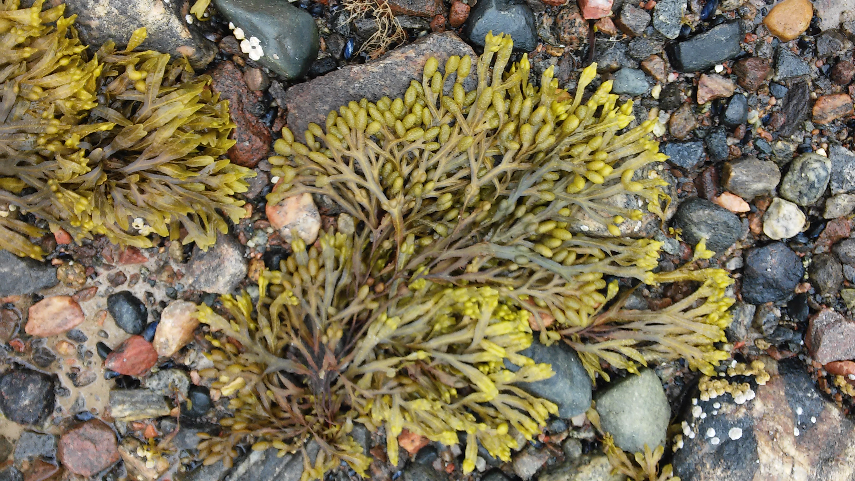 Bladderwrackwas photographed in the White Sea (near the city of Chupa) in mid-July. Bladder wrack is situated in the littoral (tidal zone). This type has, on the end of the stems "bubbles", filled with air, which is a concentrate of vegetable fat. This arrangement is necessary to plant that during high tide (when the water is suitable quite close) stalks were able to climb vertically, and not remain lying on the bottom. This plant is very useful for both human ka contains potassium, calcium, magnesium, zinc, sulfur, iodine, silicon, phosphorus, iron, selenium, barium and range of vitamins.